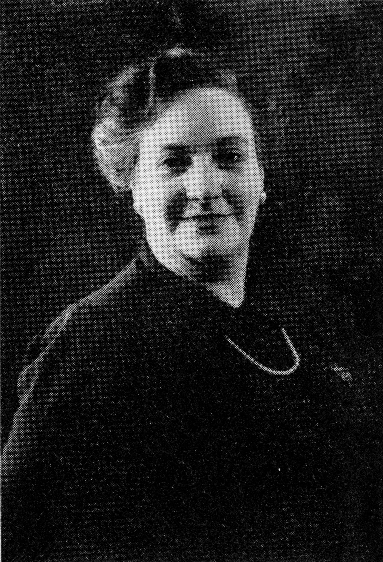 Lisa Lundholm